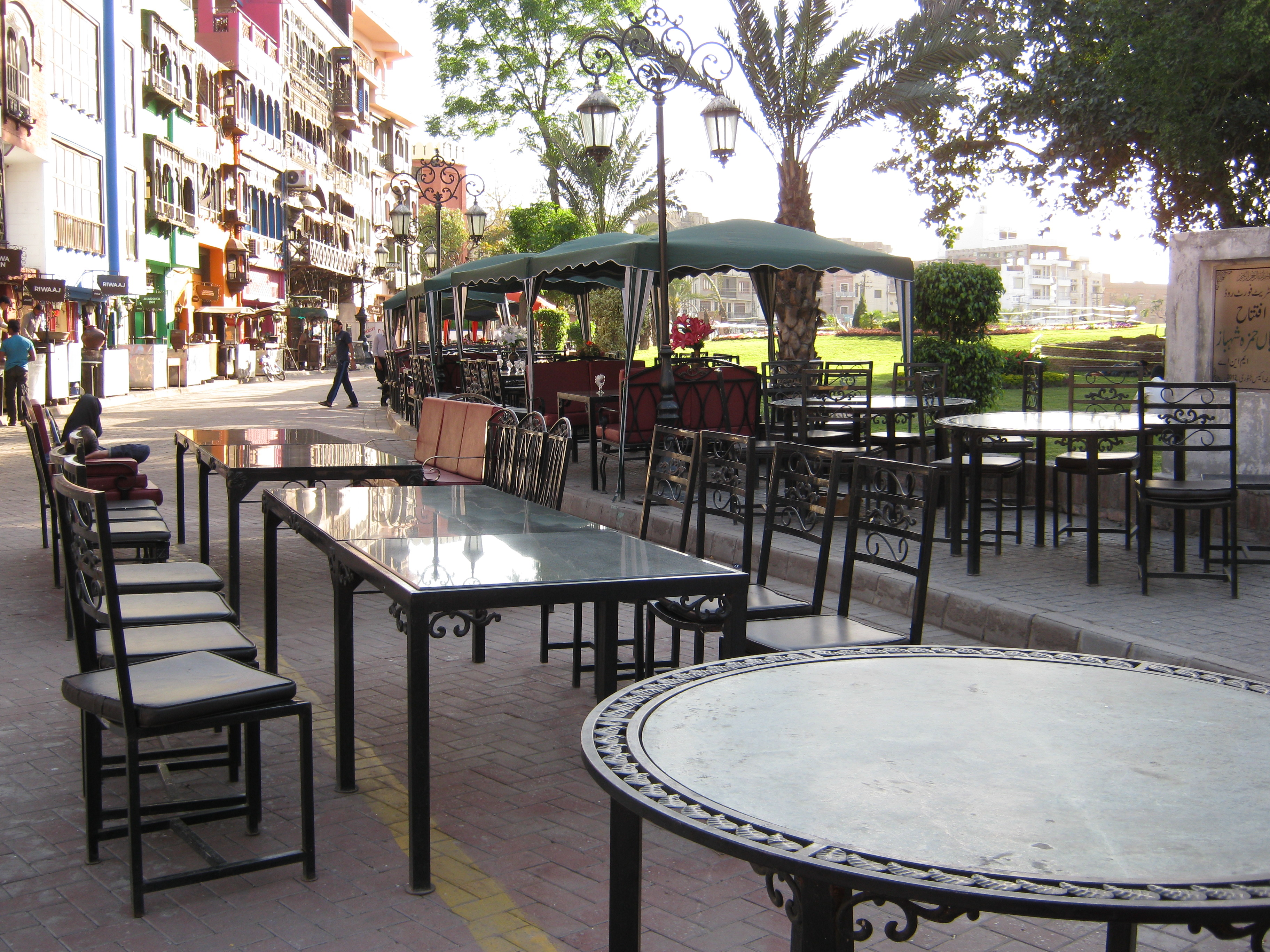 Food Street behind Shahi Fort Lahore